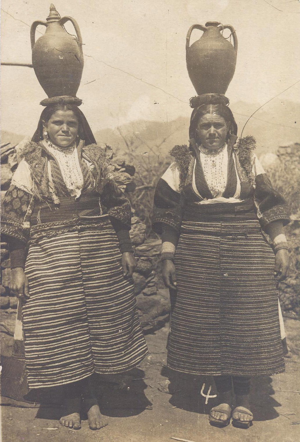 Bulgarian women